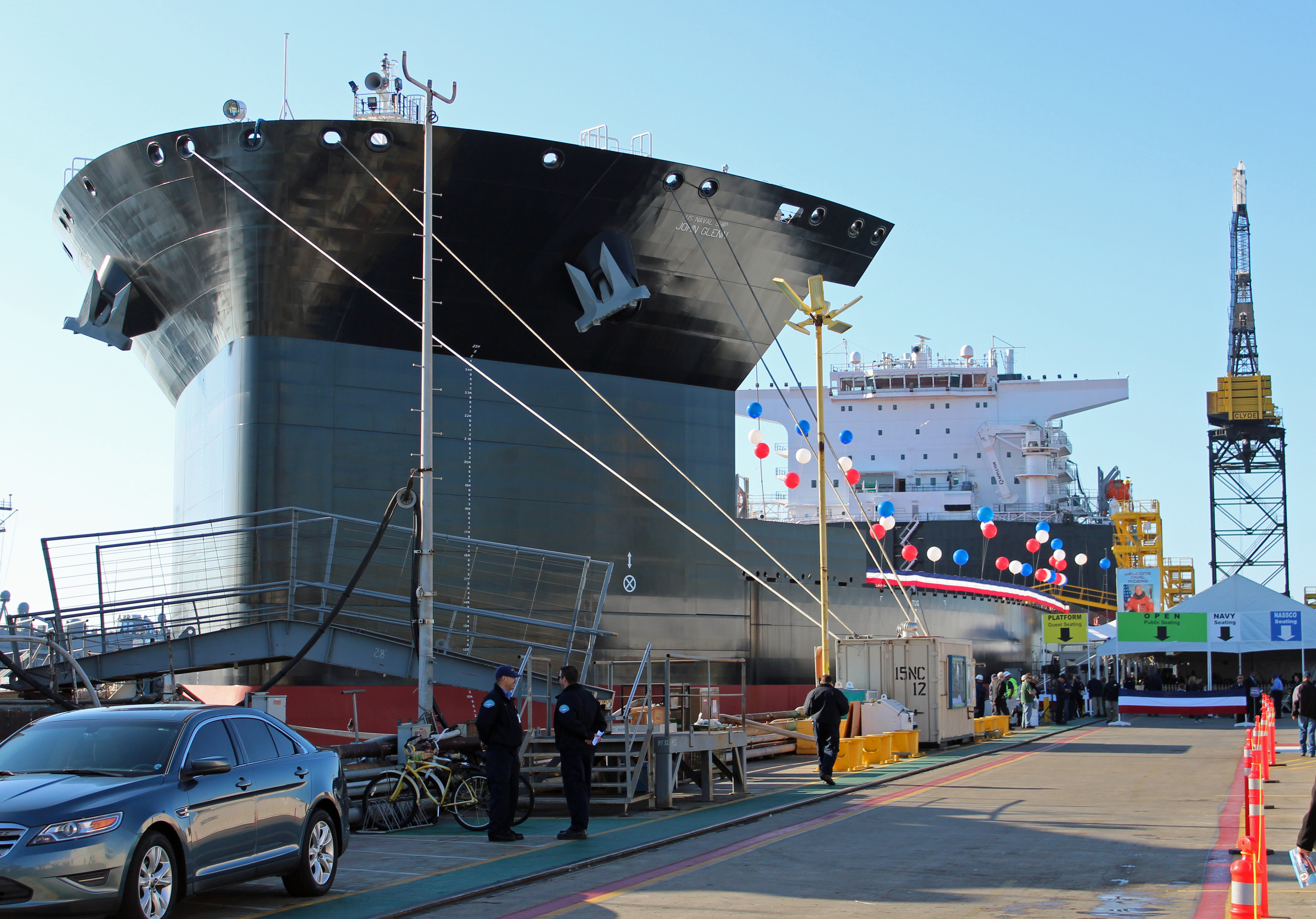 USNS John Glenn (T-MLP 2) at its christening ceremony at the NASSCO shipyard in San Diego, California.